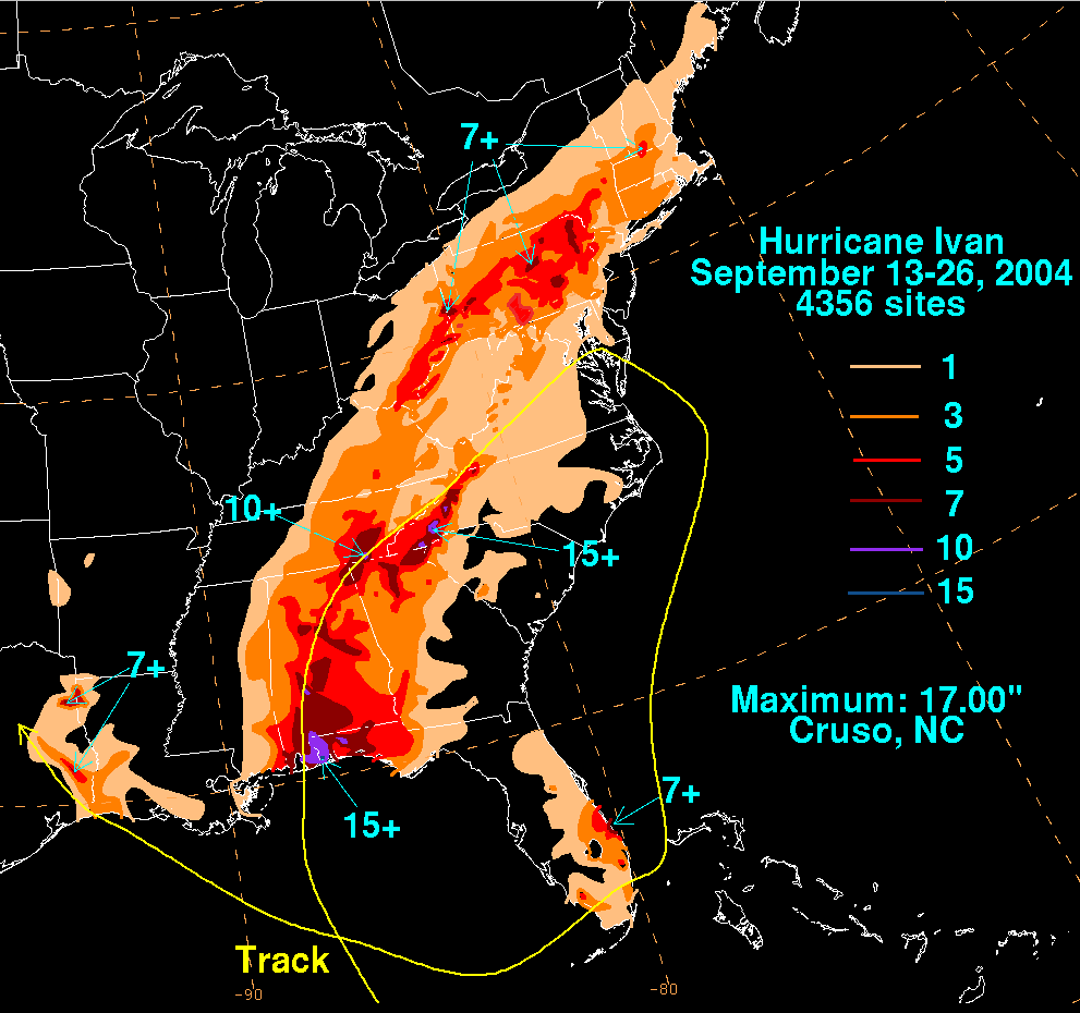 Rainfall produced by Hurricane Ivan during September 2004.